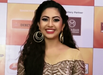 Actress Reem Shaikh at ZRA 2018